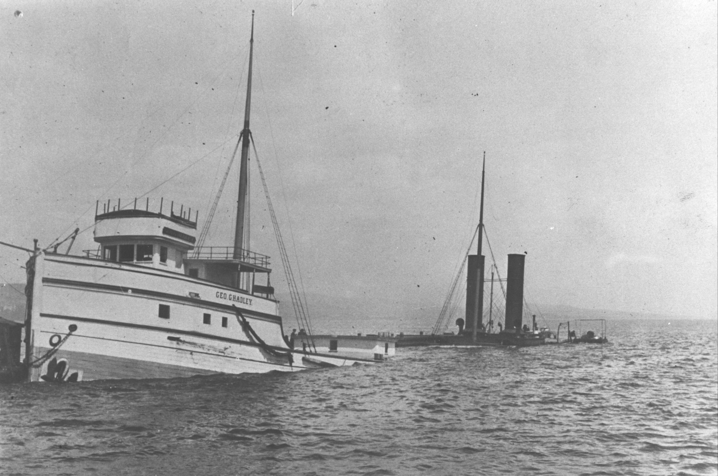 A photo of the George G. Hadley following a collision with the Thomas Wilson in the Duluth Shipping Canal on June 7, 1902. The Hadley settled to the bottom in the shallows off Minnesota Point and was recovered and repaired.